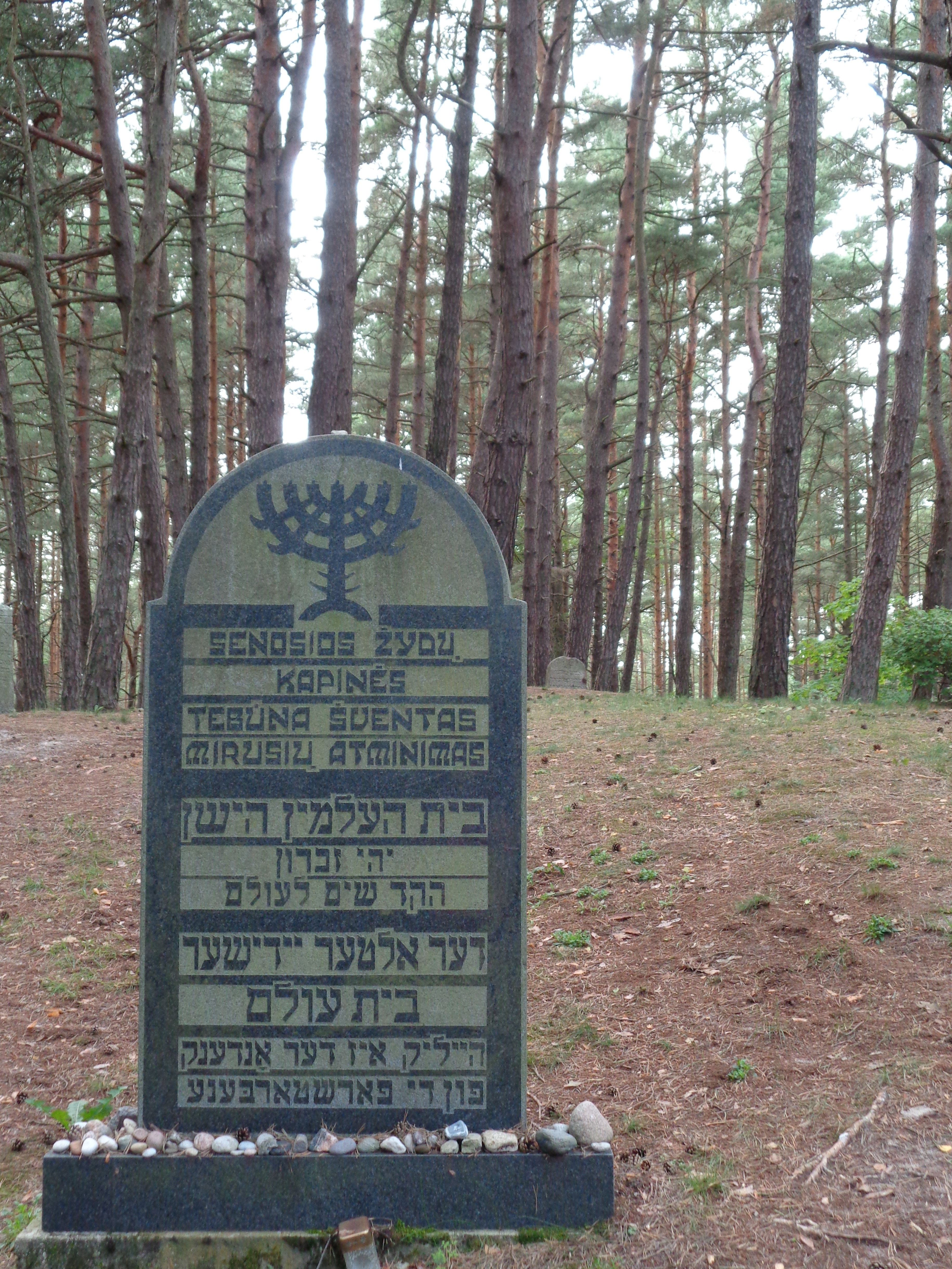 Palanga. Jewish cemetery. 2018